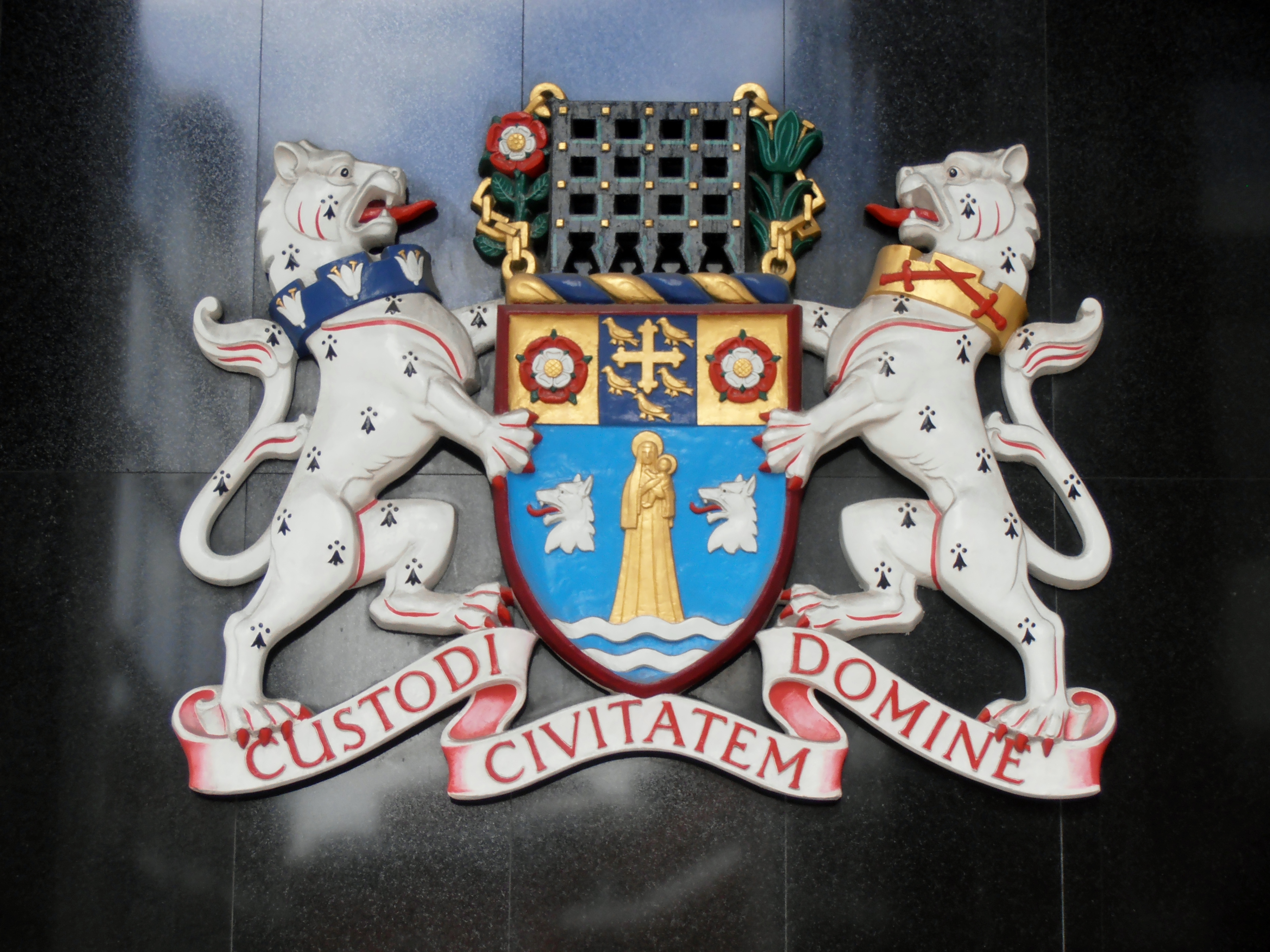 City of Westminster arms at Westminster City Hall